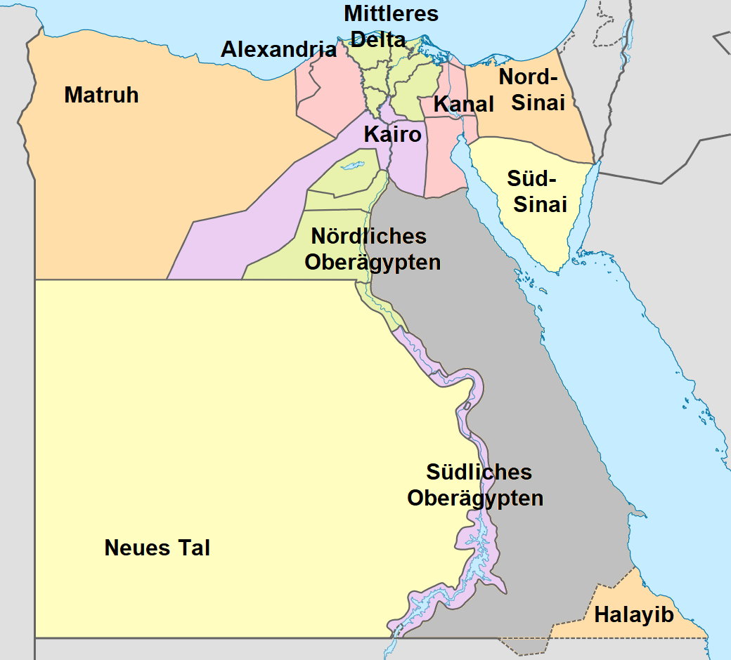 Regional radio stations in Egypt (map)